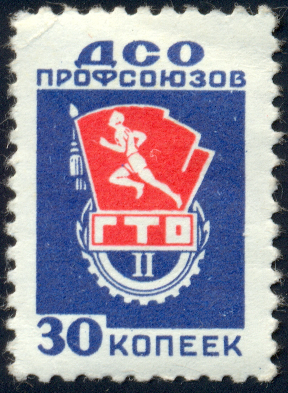 USSR revenue stamp showing a sports badge, was used in the 1980s to pay membership fee of voluntary sports society of trade unions (DSO), 30 k.